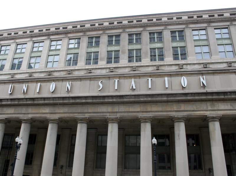 The facade of Chicago's Union Station main building